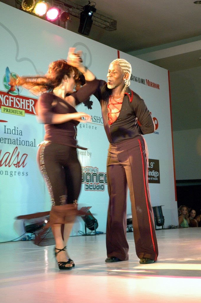 India International Salsa Congress Bangalore event on 2004